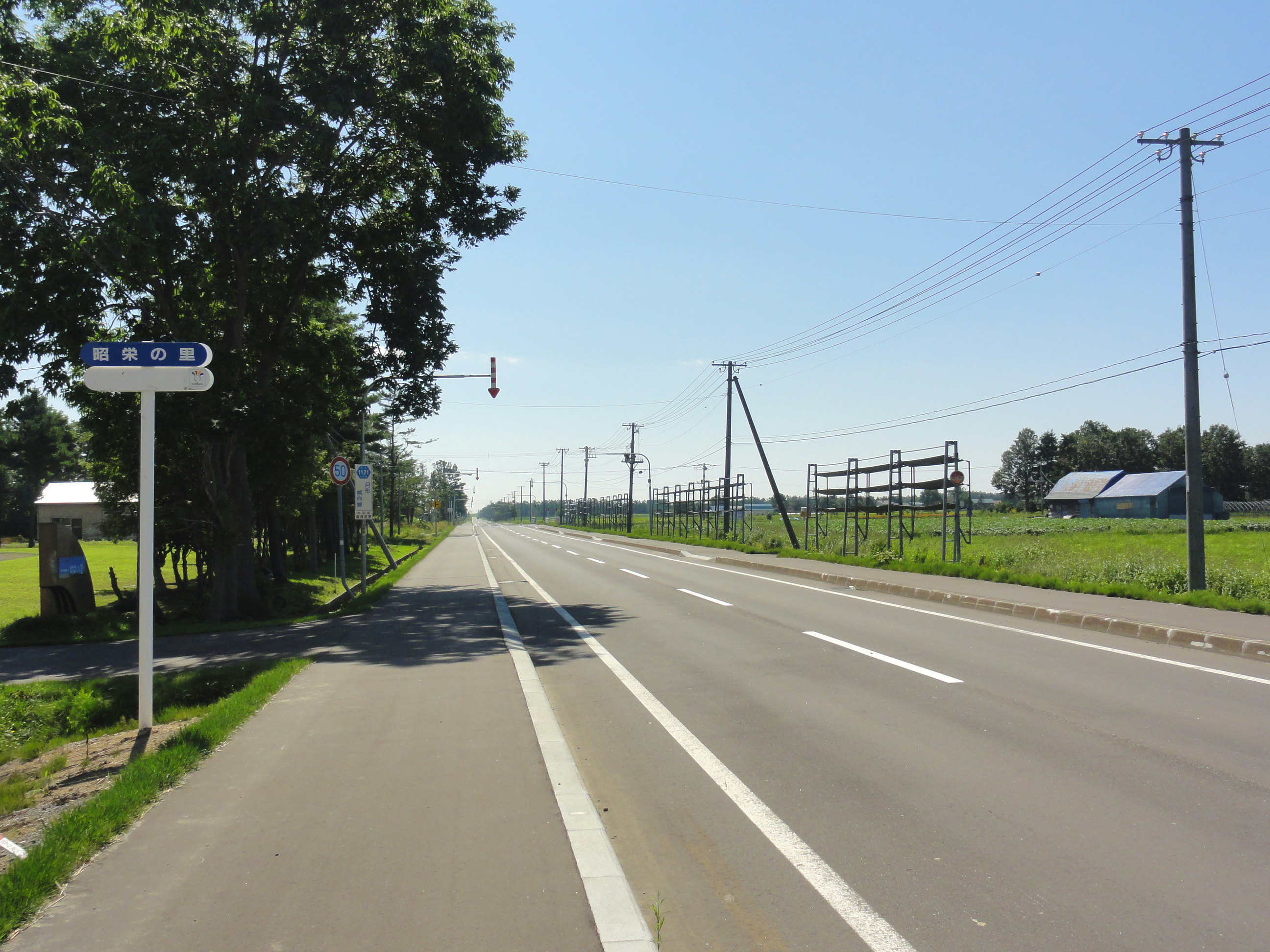 The Hokkaido Prefectural Road Route 1121 in Tsukigata Town